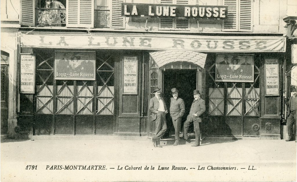 Cabaret de la Lune Rousse